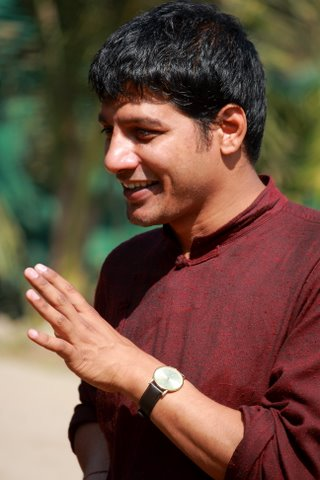 Adhik Kadam- Social Enterpreneur